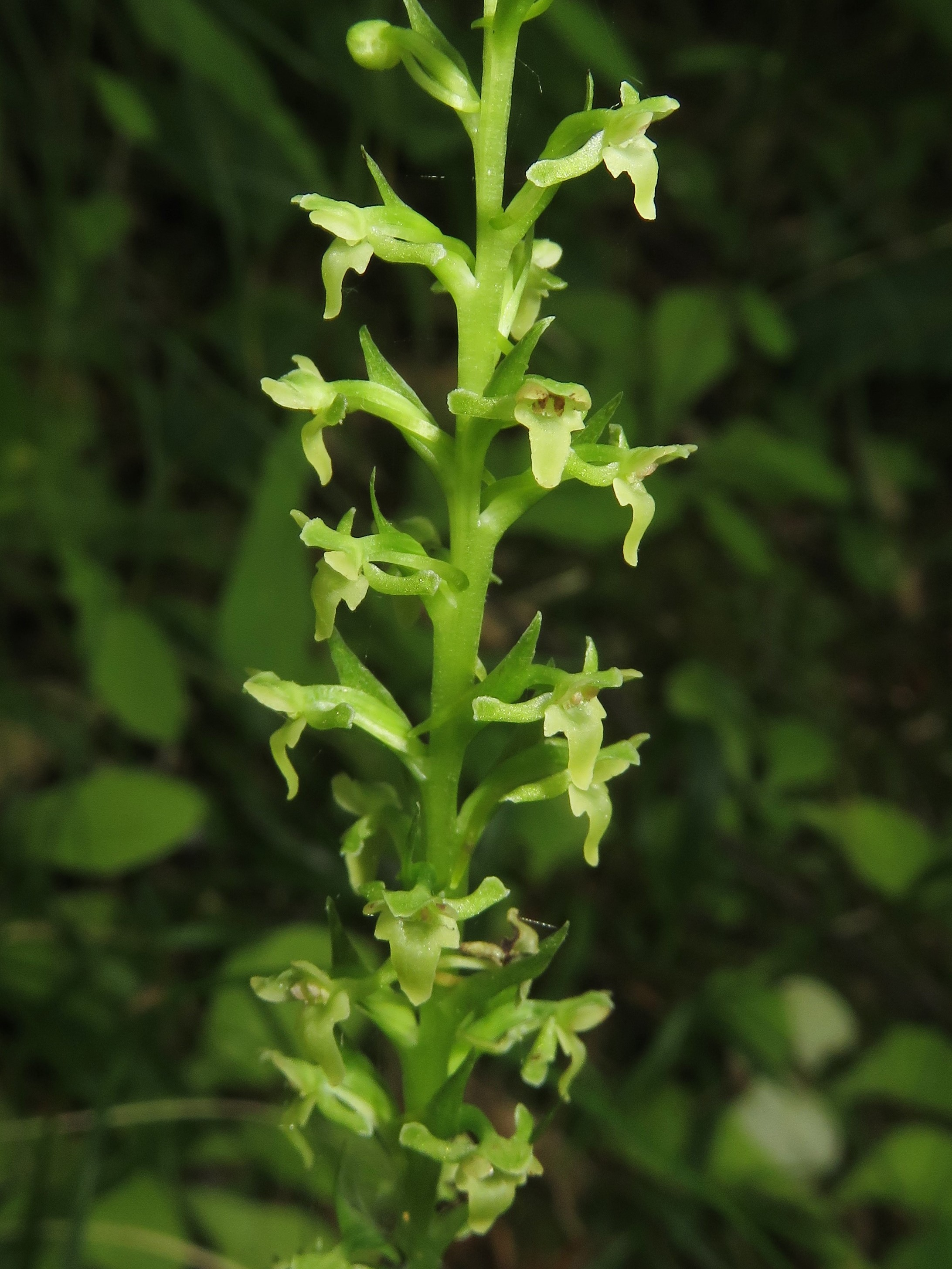 Platanthera ussuriensis, Tsugaru area, Aomori pref., Japan